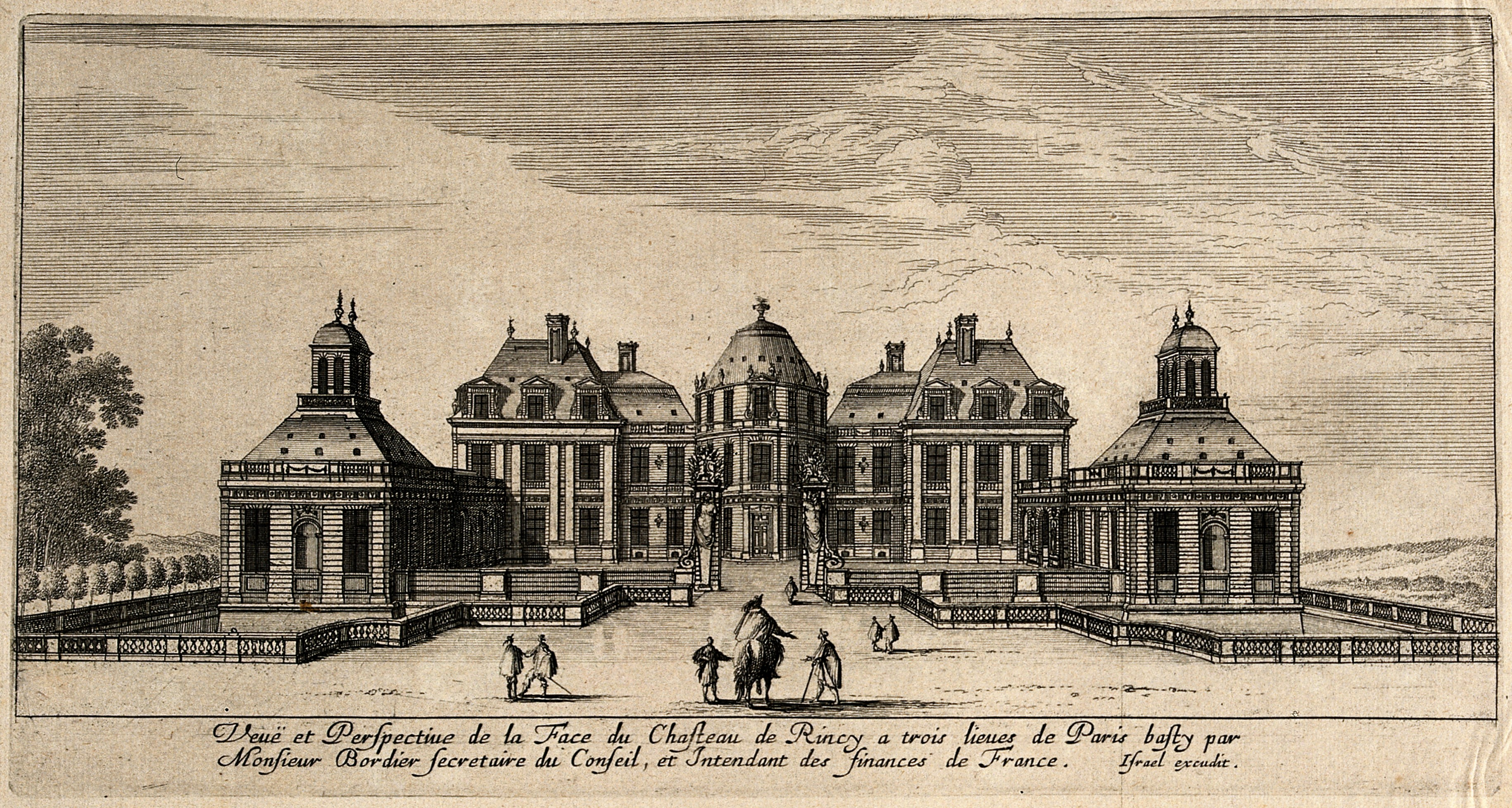 The Chateau Bordier at Raincy, near Paris. Etching. Iconographic Collections